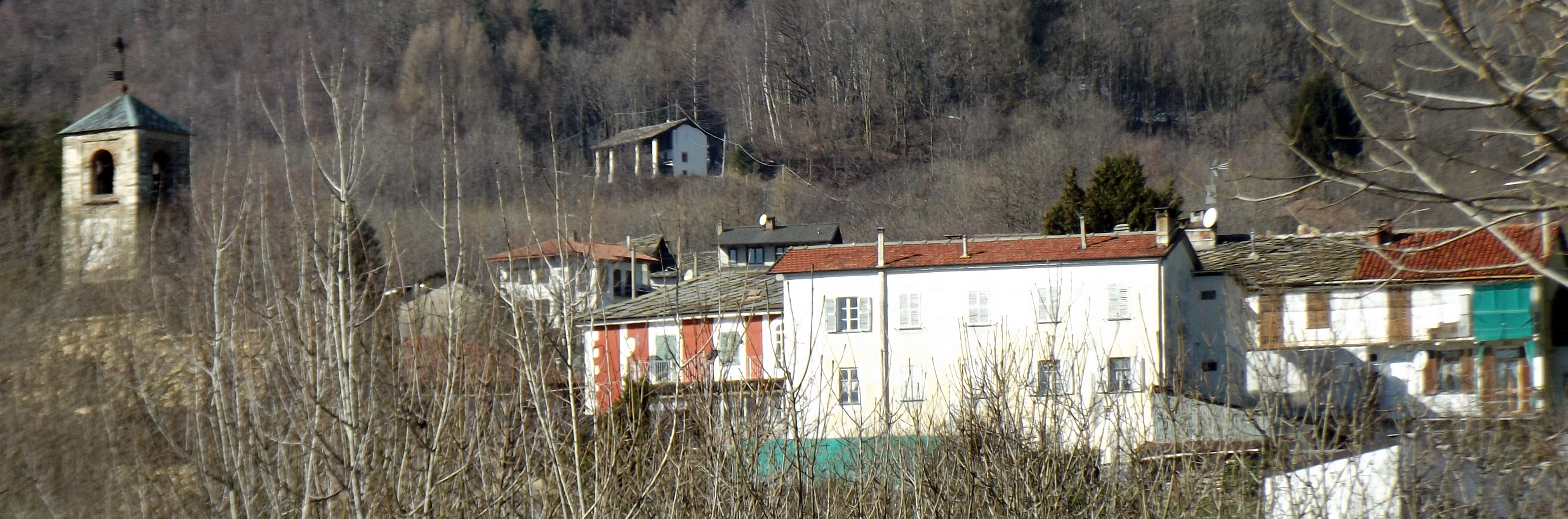 Canischio (TO, Italy): panorama